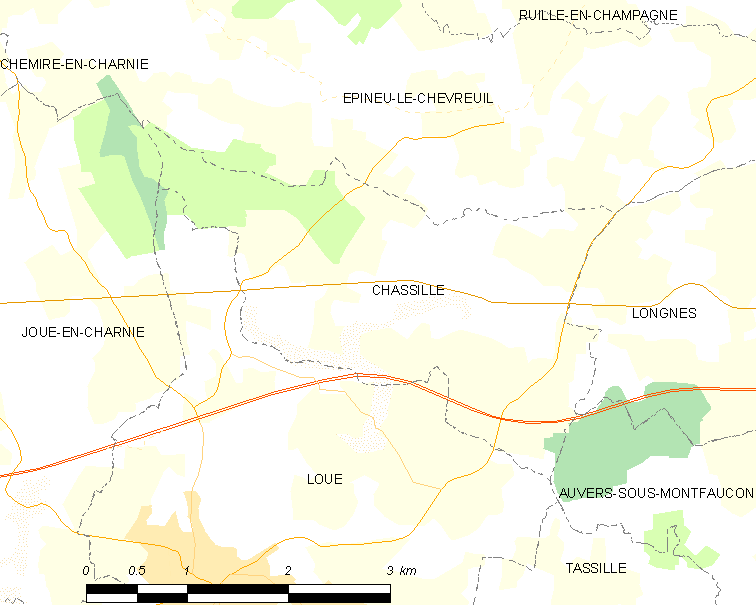 Map of French municipality